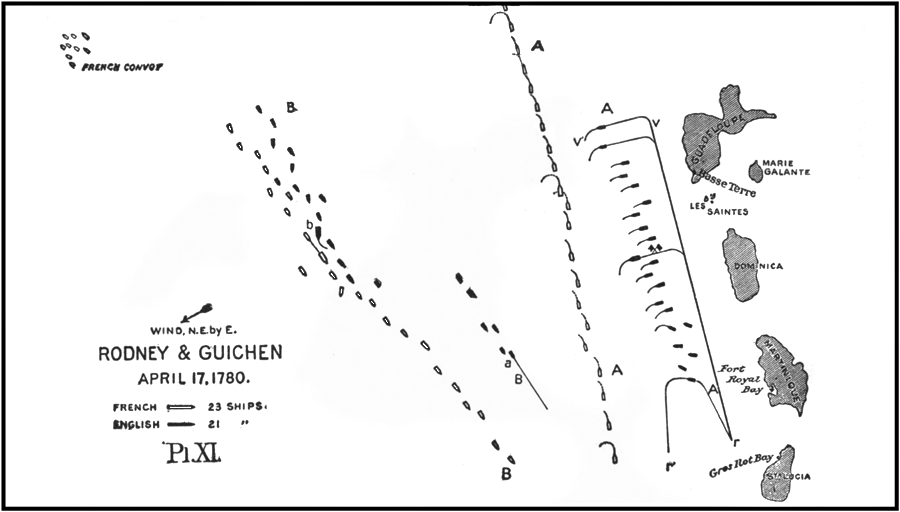 Rodney & de Guichen 17 April 1780; battle of Martinique